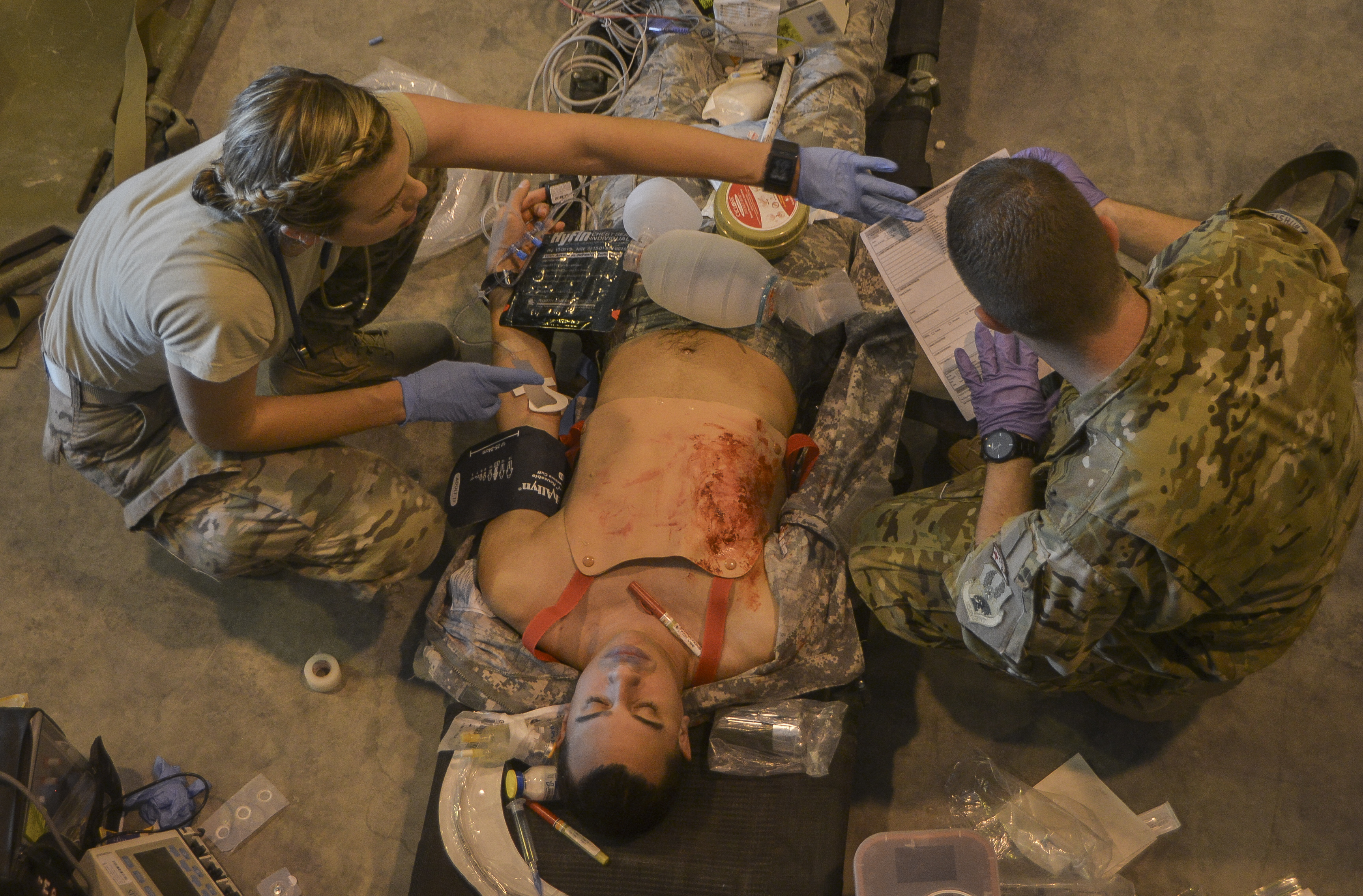 Capt. Laura Yaris, a member of the Mobile Field Surgical Team, works on stabilizing a simulated patient during a medical exercise at Al Udeid Air Base, Qatar, Feb. 27, 2014, to work on life-saving skills provided to wounded warriors. An MFST is a group of medical professionals who support forward operations throughout the U.S. Central Command's area of responsibility and Operation Enduring Freedom through advance trauma life support and critical care for service members wounded in combat. Mobile Field Surgical Teams act as a transition point to get patients to the next level of care and stabilize patients before they are able to be transported by air. Yaris is a critical care nurse deployed from Nellis Air Force Base, Nev., and a Saint Robert, Mo., native. (U.S. Air Force photo/Senior Airman Jared Trimarchi)